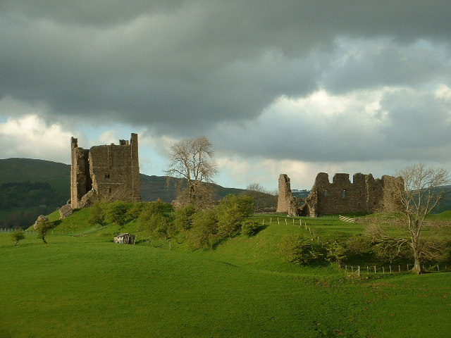 Brough Castle, Cumbria. Built on the site of an old Roman fort, in about 1100